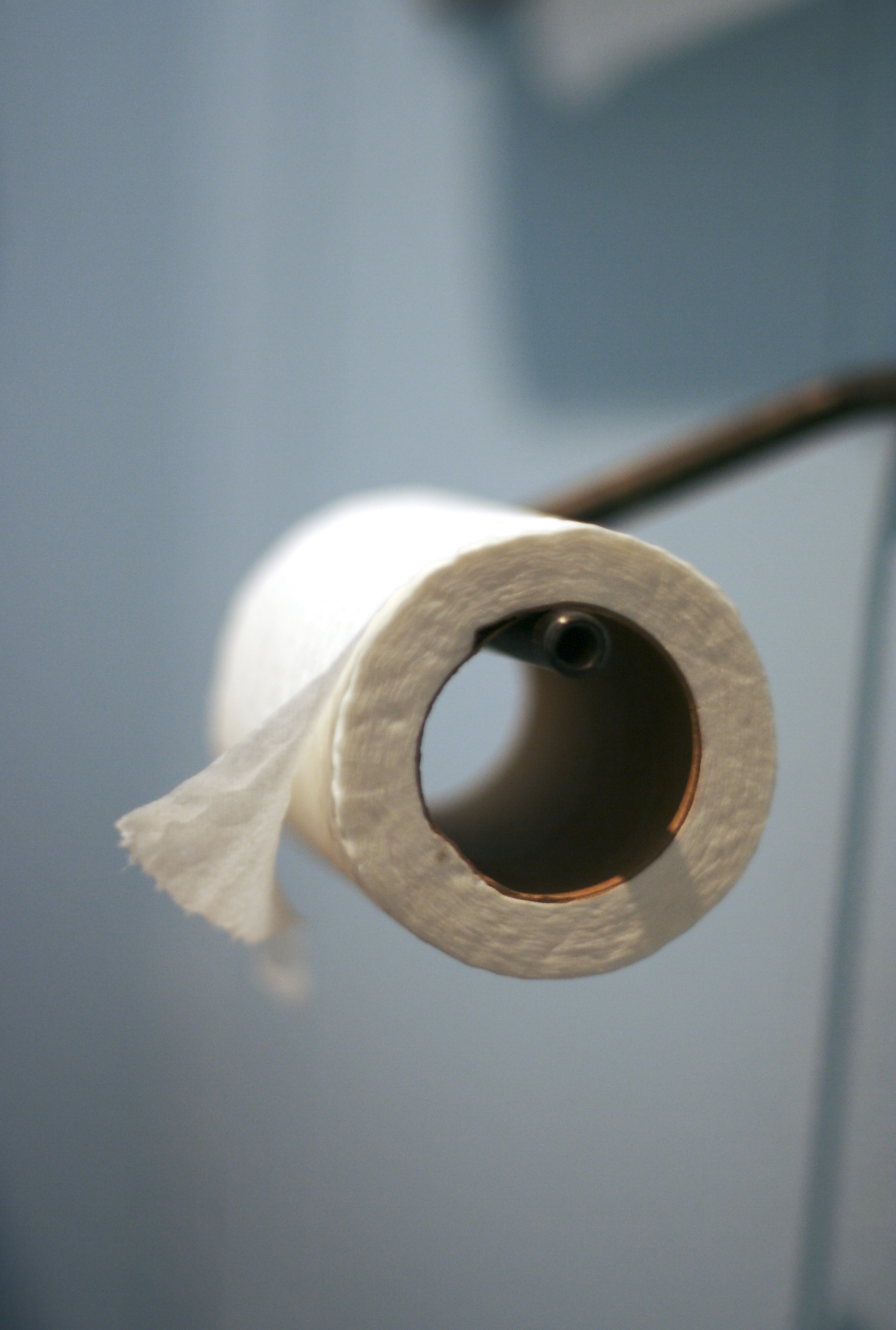 Four Friends Coffehouse 136 Monroe Center Downtown Grand Rapids, MI